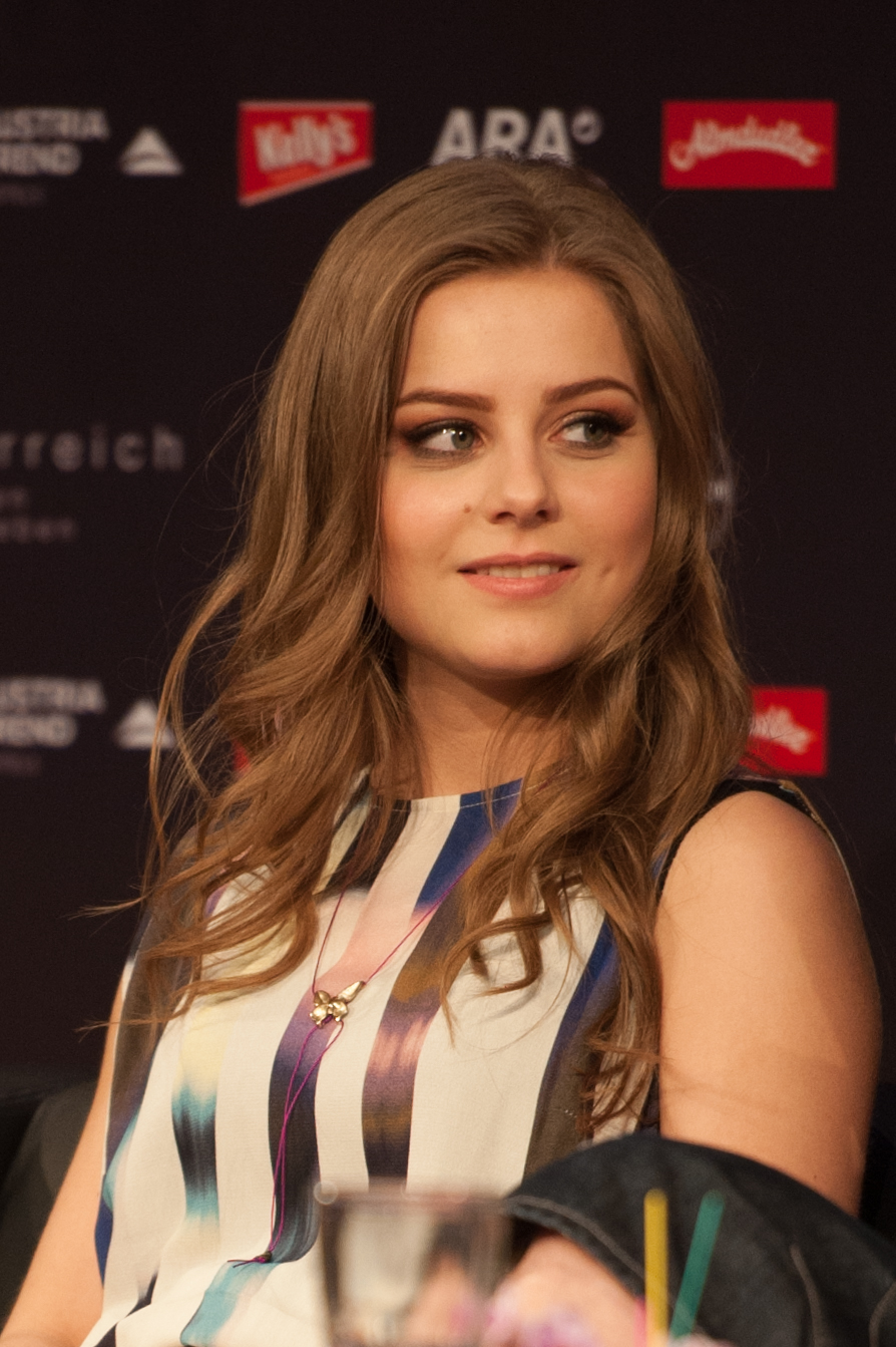 Eurovision Song Contest Vienna 2015: Maria Olafs